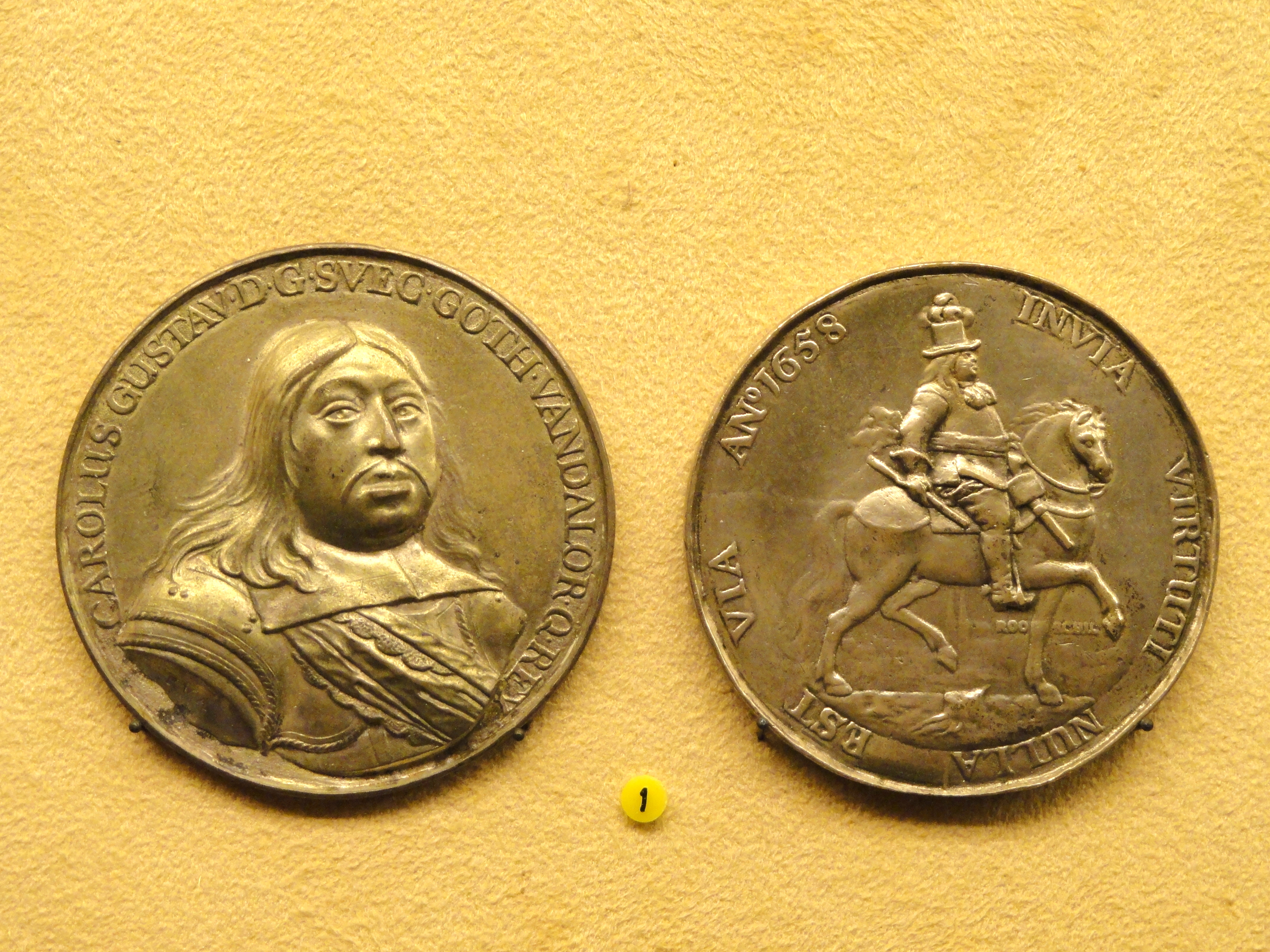 Coin / medal in the National Museum of Finland, Helsinki, Finland. This artwork is in the public domain because the artist(s) died more than 70 years ago.